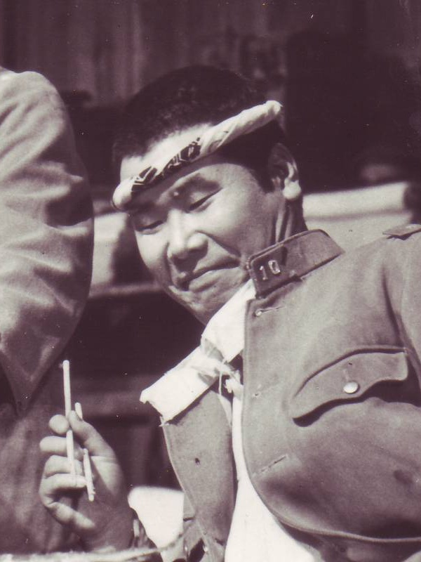 Kiyoshi Atsumi. Studio Still of the 1963 Japanese film "Haikei Tenno Heika Sama (from Emperor Hirohito)" (Shochiku Co., Ltd.).